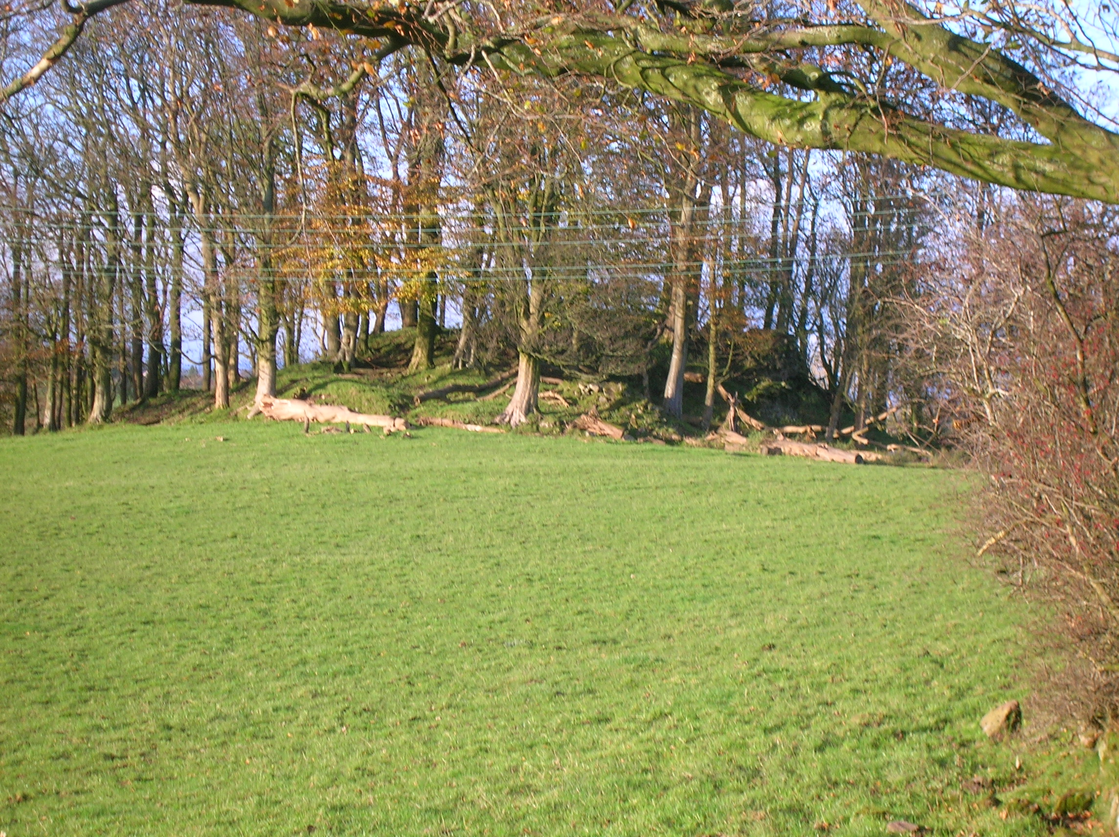 Polnoon Castle mound and ruins from the Strathaven Road, Millhall, East Renfrewshire, Scotland.